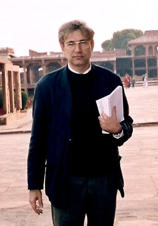 Orhan Pamuk, turkish novelist.